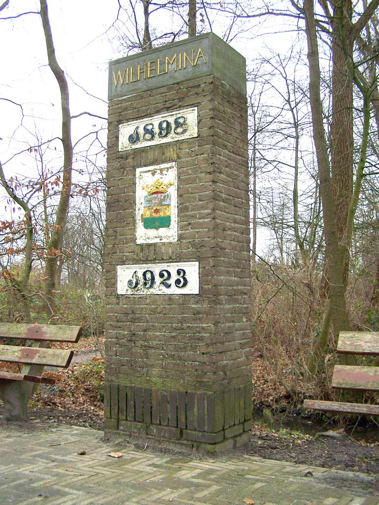 Monument in Kollum to honour queen Wilhelmina when she was queen for 25 years (between 1898 and 1923). It's placed at the Adje Lambertszlaan.